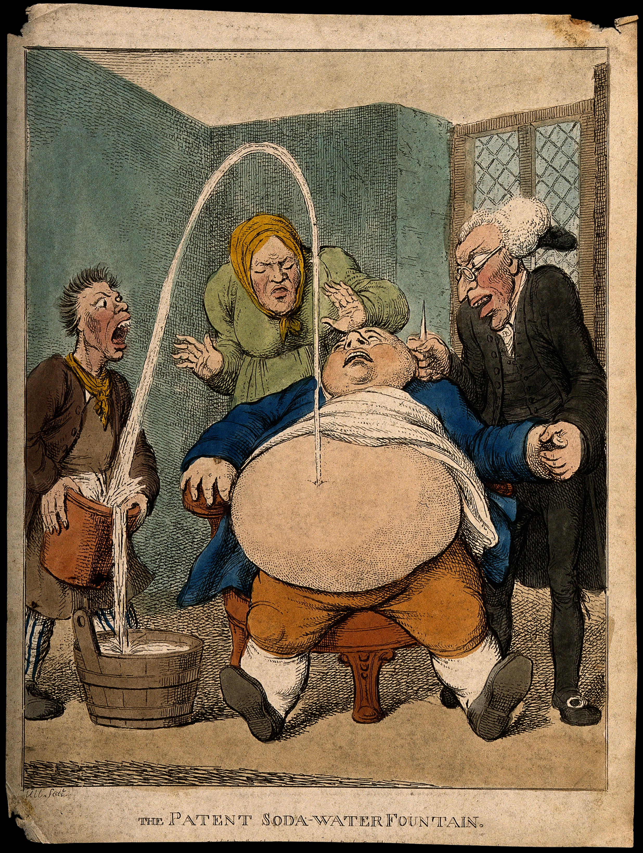 A doctor performing a paracentesis on an obese man, whose abdomen is tapped ejecting a fountain into a bucket. Coloured etching by Ull. Iconographic Collections Keywords: brn 11812; SATIRE; Ull